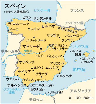 It's a map of the cities of Spain written in Japanese.